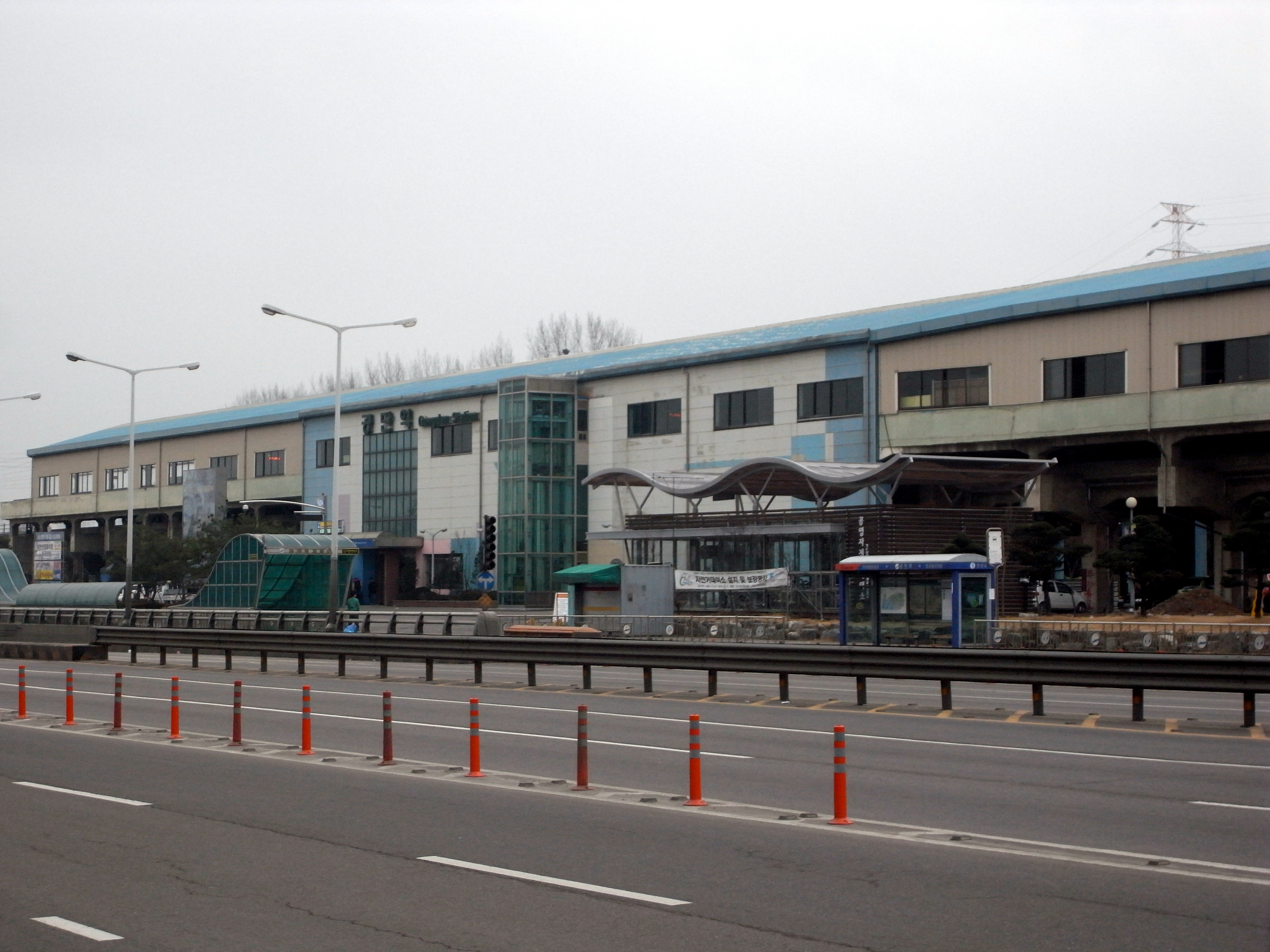 Choji Station (formerly Gongdan Station)